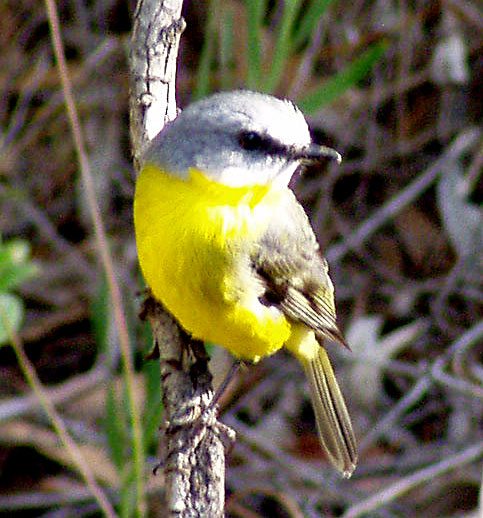 Description: Eastern Yellow Robin (Eopsaltria australis) Location: Australian National Botanic Gardens, Canberra, Australian Capital Territory, Australia Date: 2005-09-21 Source: picture taken by Danielle Langlois Licence: Released under GFDL and Creative Commons licenses by the photographer